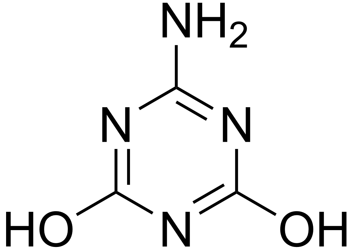 Chemical structure of ammelide